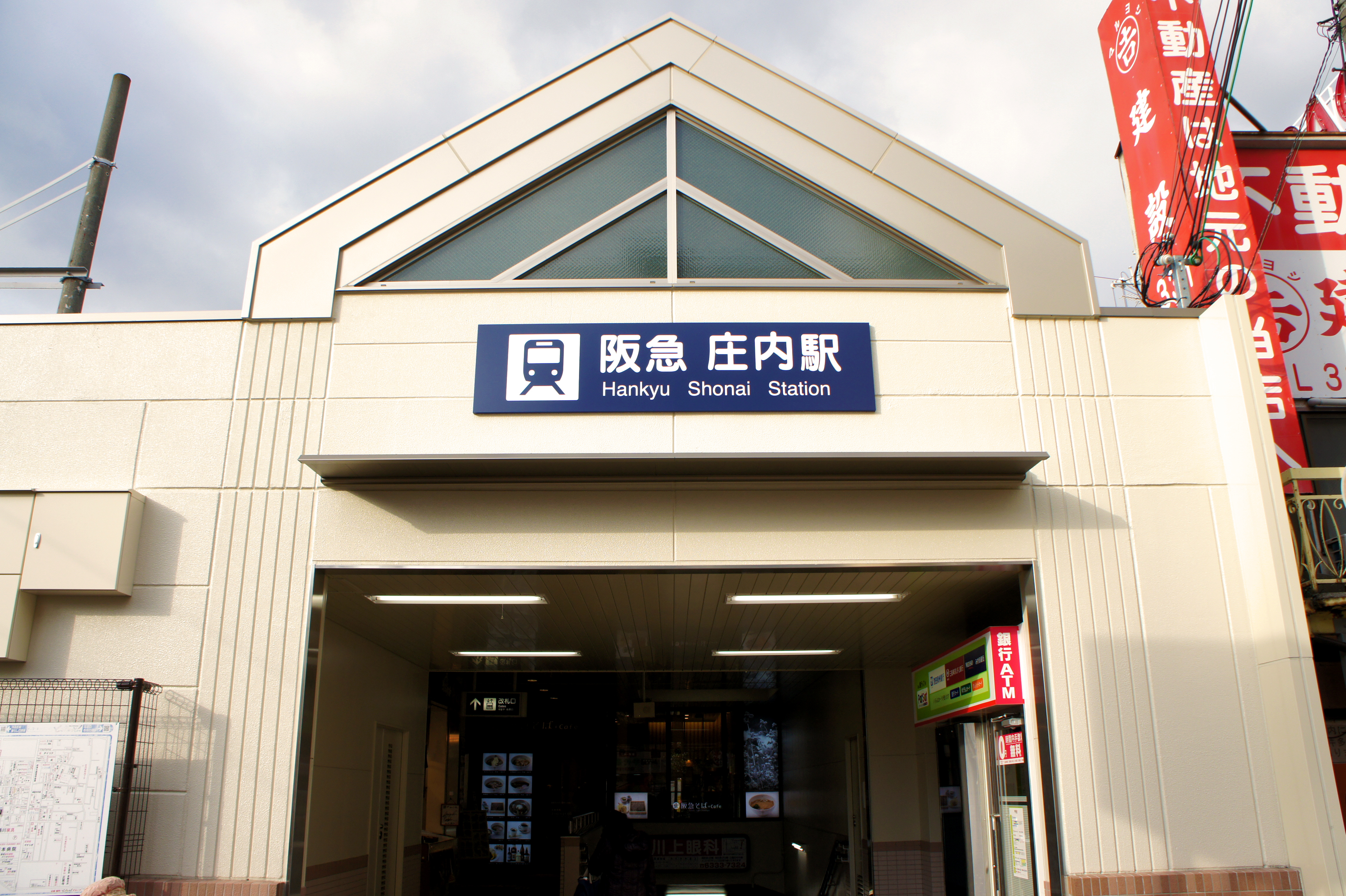 Hankyu Shonai Station(EAST EXIT), Shonaihigashimachi Toyonaka-City Osaka Japan.